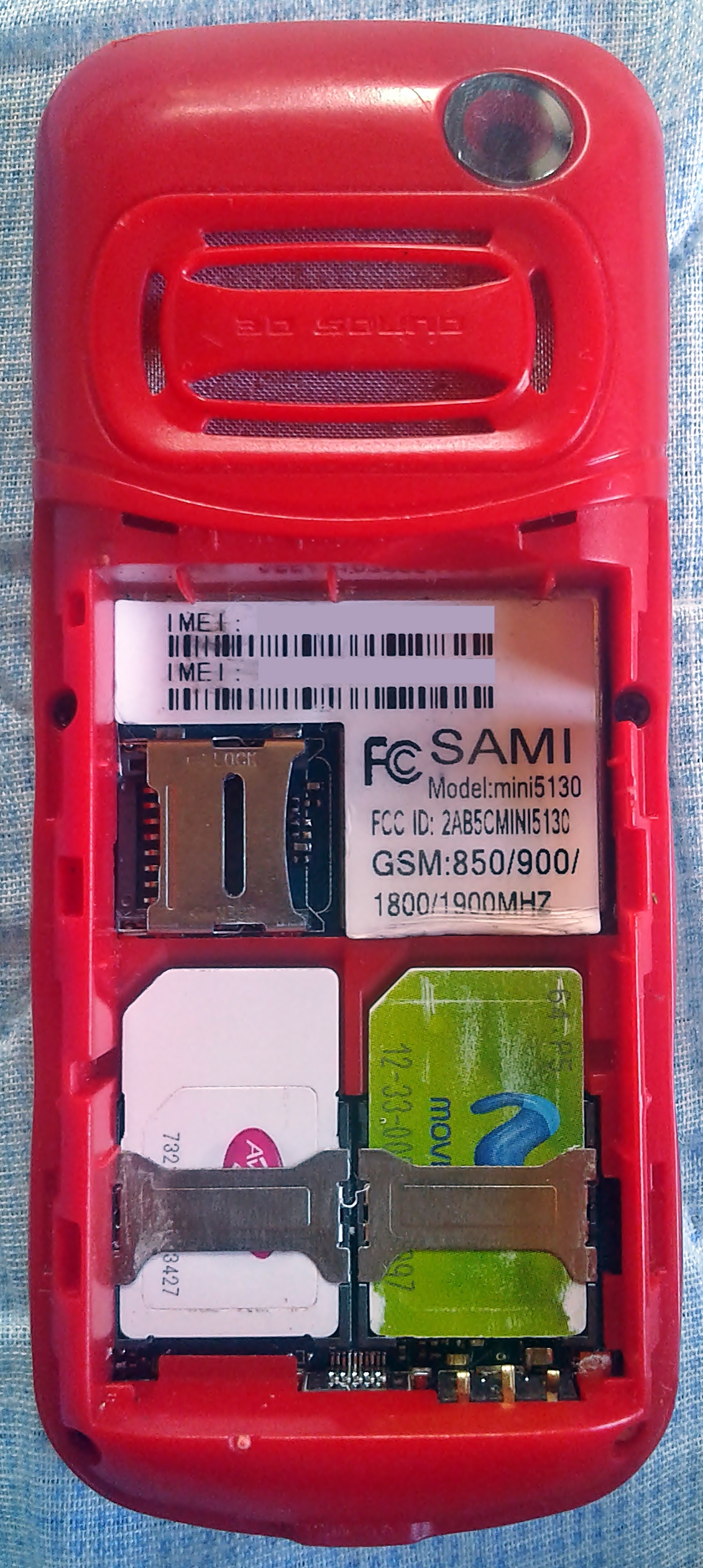 2 sim cards installed Avantel Colombia and Movistar Colombia installed in a Chinese cell phone